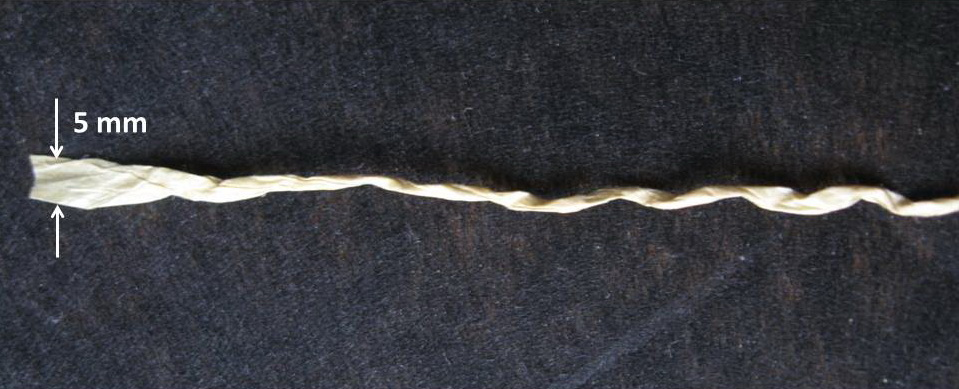 Paper yarn